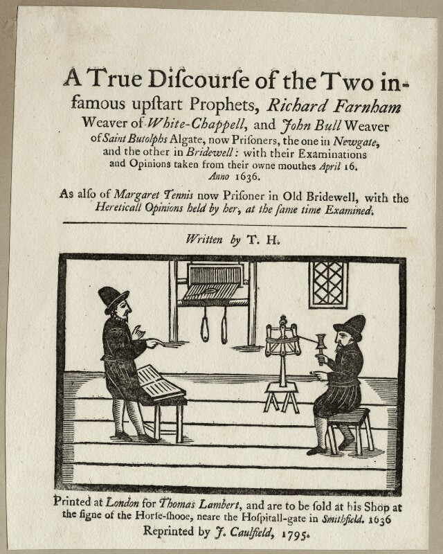 Thomas Heywood's pamphlet, A true discourse of the two infamous upstart prophets (1636), with a woodcut of John Bull and Richard Farnham. Reproduced by James Caulfield in 1795.